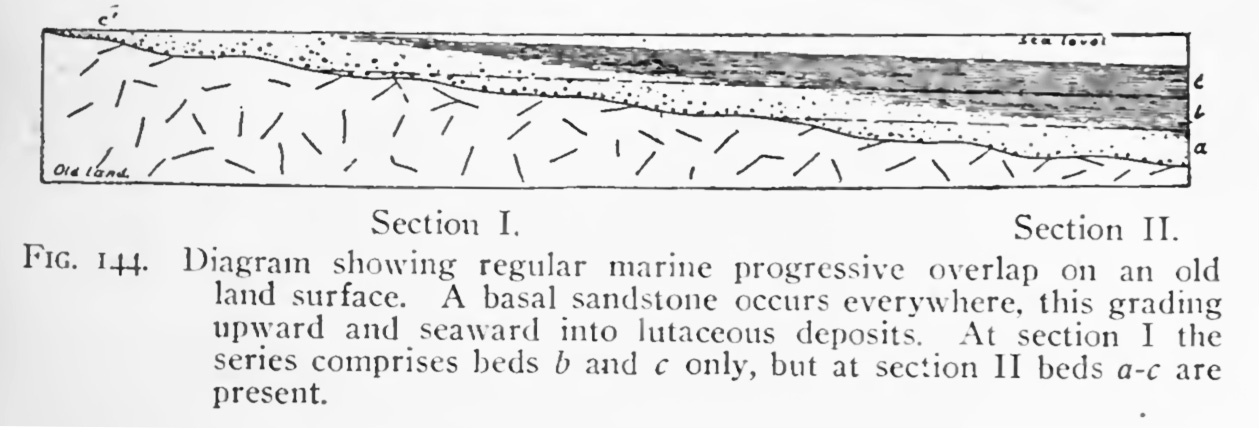 This interpretation assumes that repetition of a gradually rising sea level could explain cyclic sedimentation, which seems unlikely given a fixed sea level.